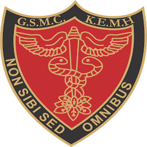 GSMC and KEM logo. I have copyrights to this logo